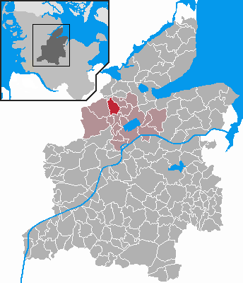 Locator maps of municipalities in Schleswig-Holstein - District Rendsburg-Eckernförde